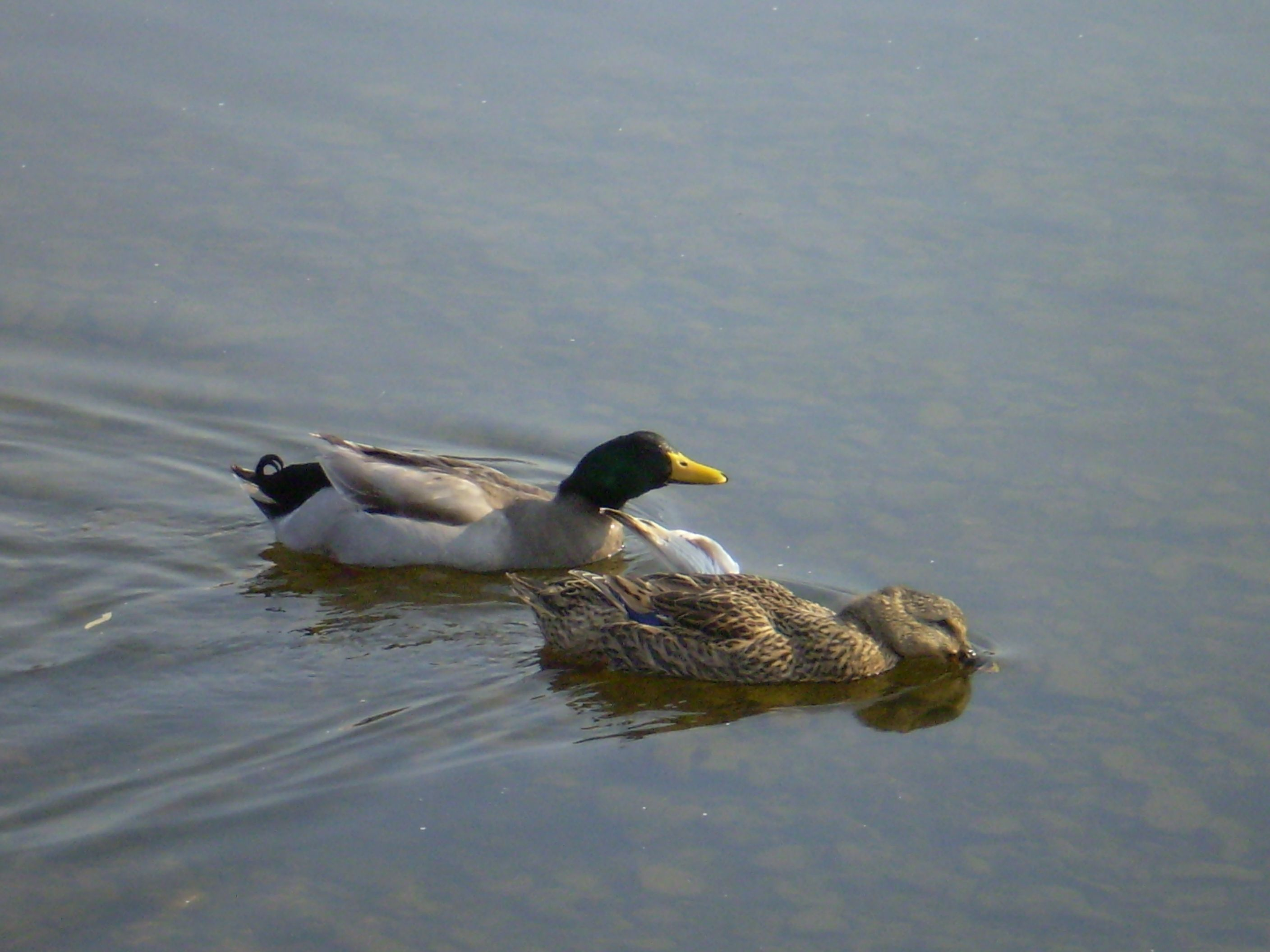 A male and female mallard duck dipping their bills in the water, on the Sincheon stream in central Daegu, South Korea.